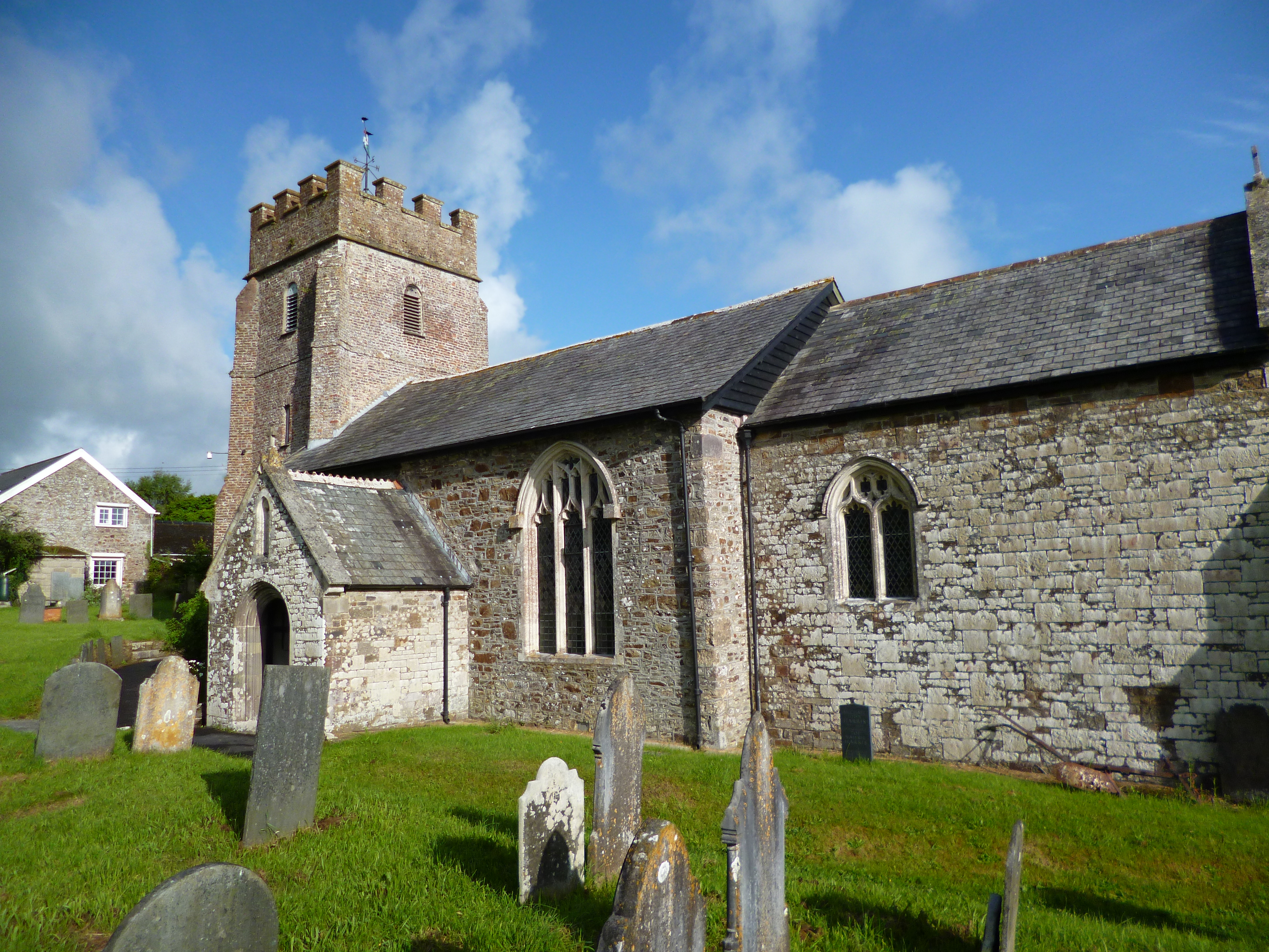 St George's parish church, George Nympton, Devon, seen from the east